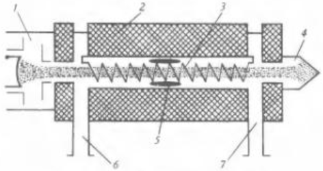 Running wavelength lamp scheme